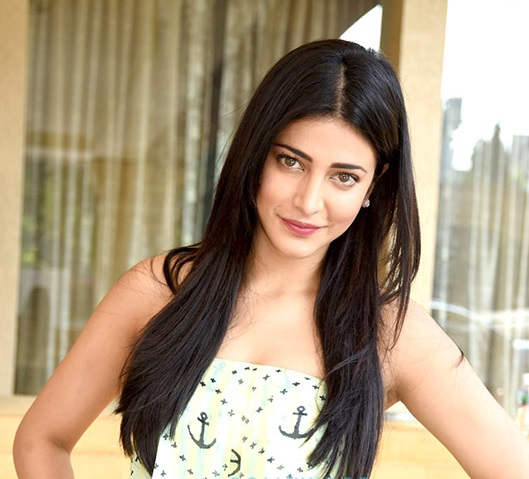 Shruti Haasan grace the Carzonrent-Gabbar Is Back Meet & Greet,2015